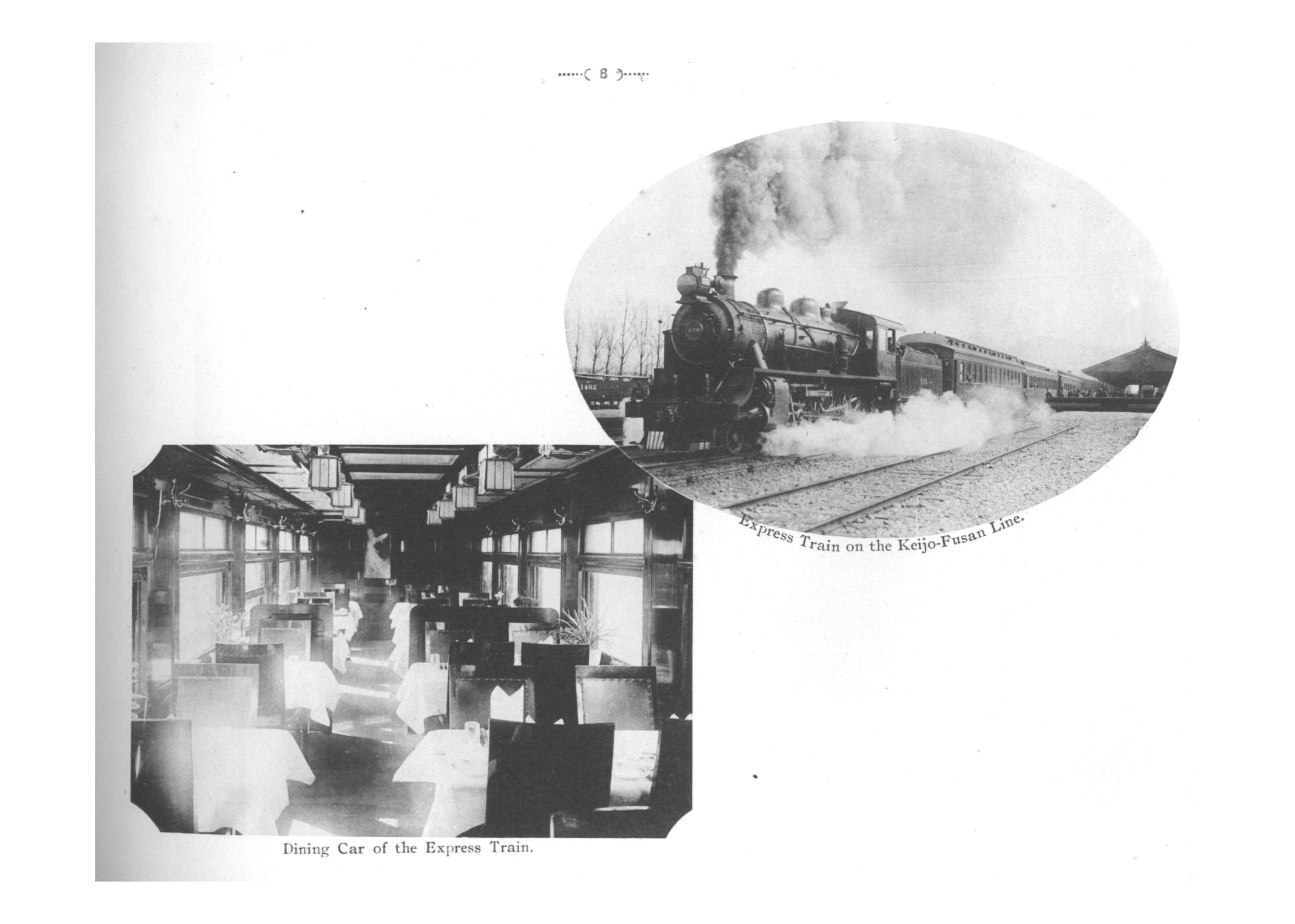 Train along the Gyeongbu Line and dining car interior.